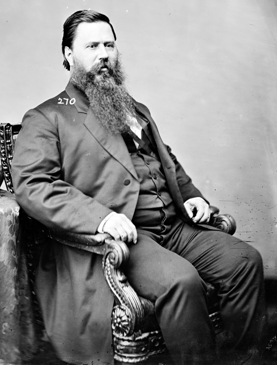 Benjamin F. Whittemore, US Representative from South Carolina